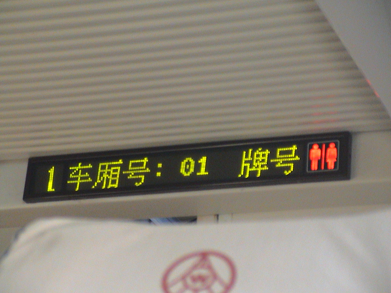 Traditional